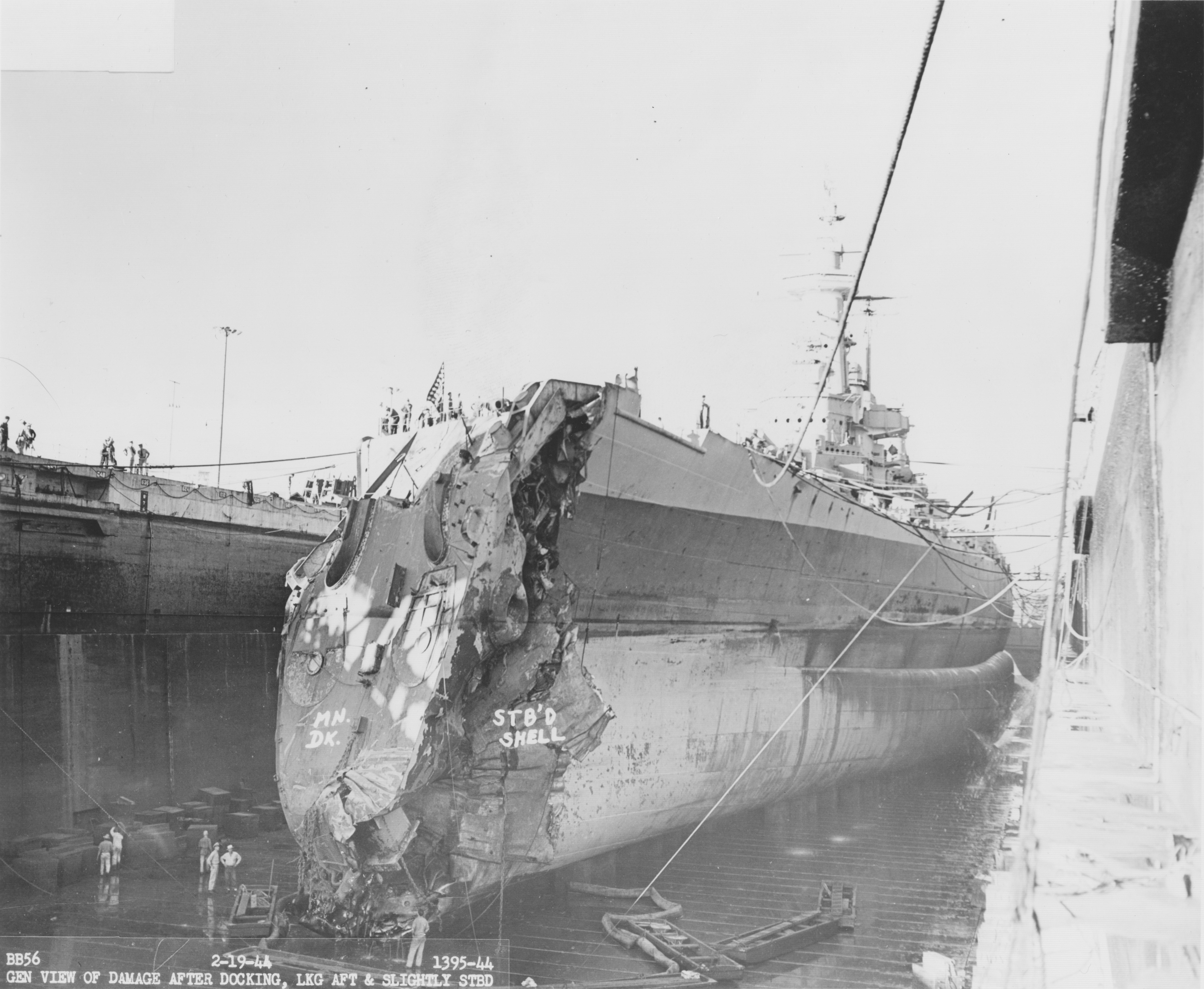 View of the damage to the USS Washington after colliding with the USS Indiana, as seen upon arrival in Pearl Harbor. The front side of the damage is the main deck bent down. Box: 19LCM, BB-55 to BB-56; Folder: K / BS 109964 - 109969 BS 109965; 1395-44